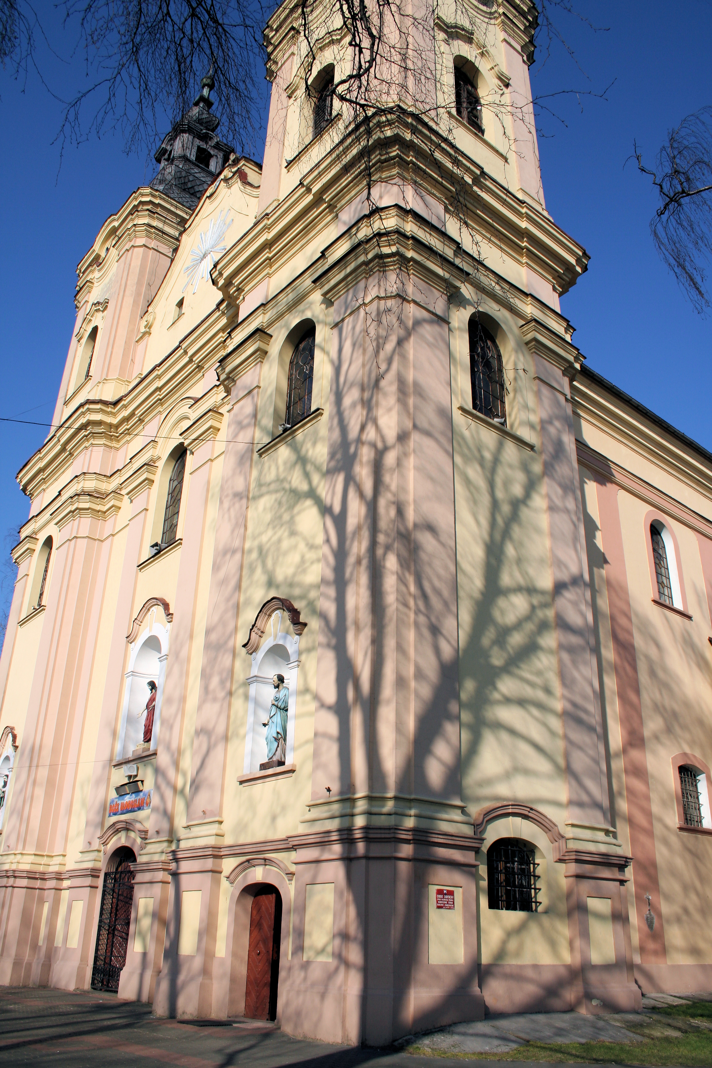 St Wenceslaus church in Głuchów (powiat skierniewicki)